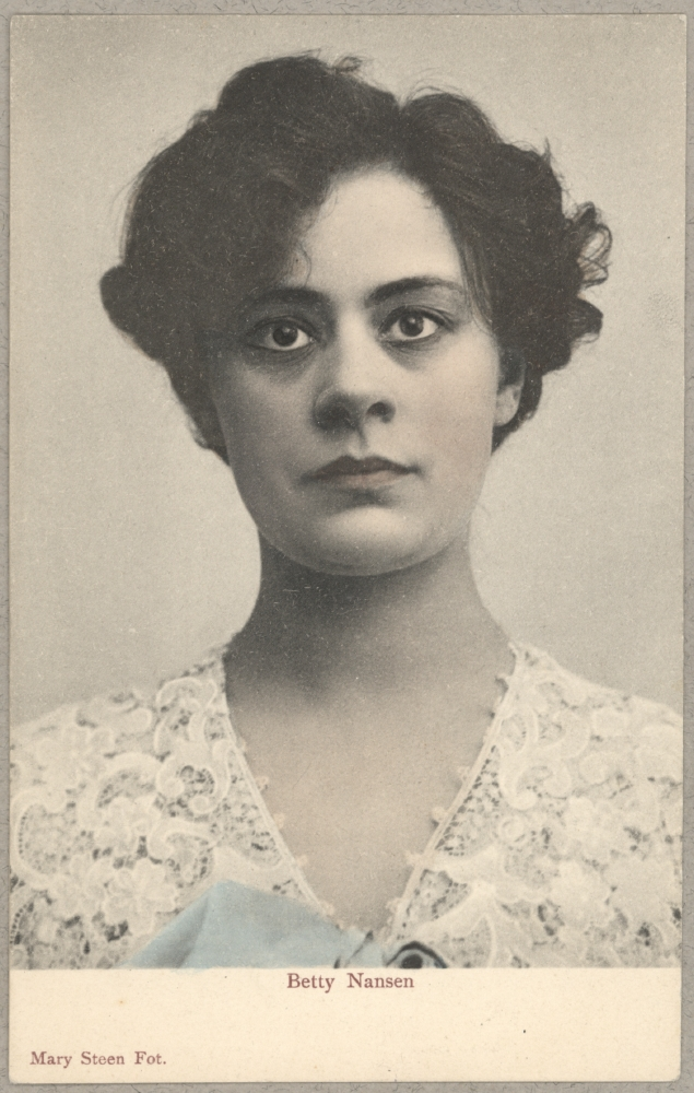 KB id: ke019497 Photo: Mary Steen (1856-1939) Department of Maps, Prints and Photographs, The Royal Library, Denmark.